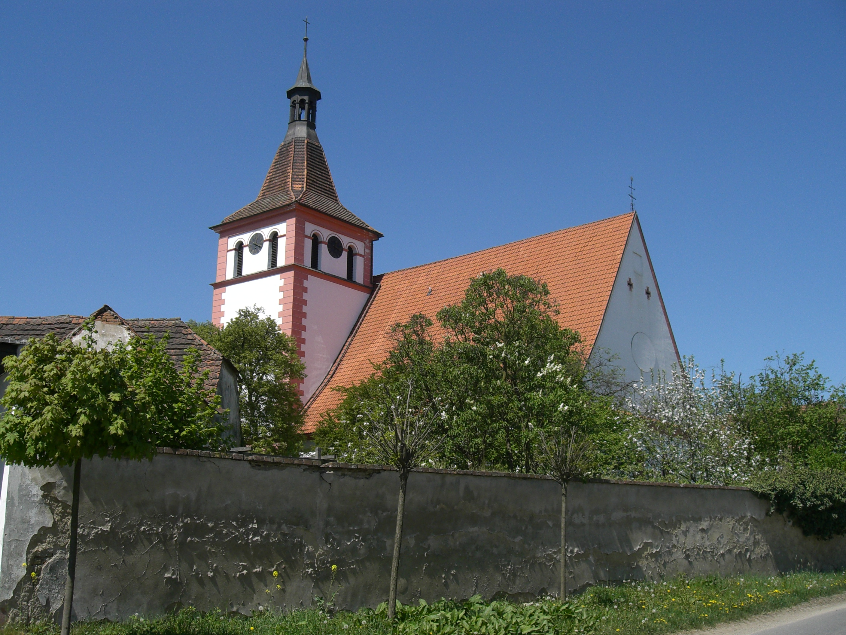 Oslov village in Písek district, Czech Republic. Kostel